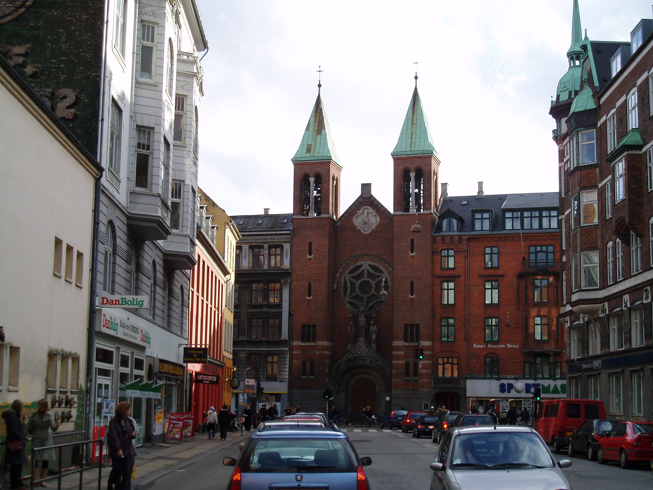 Sacrament's Church in Copenhagen.